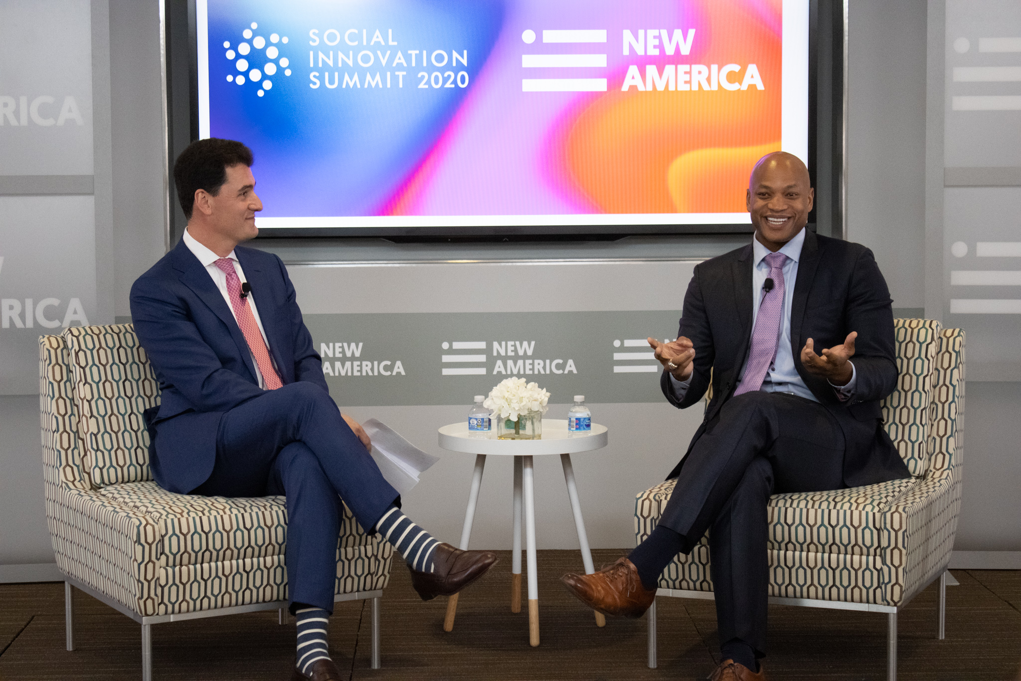 Ken Biberaj, Managing Director of Savills North America, and Wes Moore, CEO of the Robin Hood Foundation